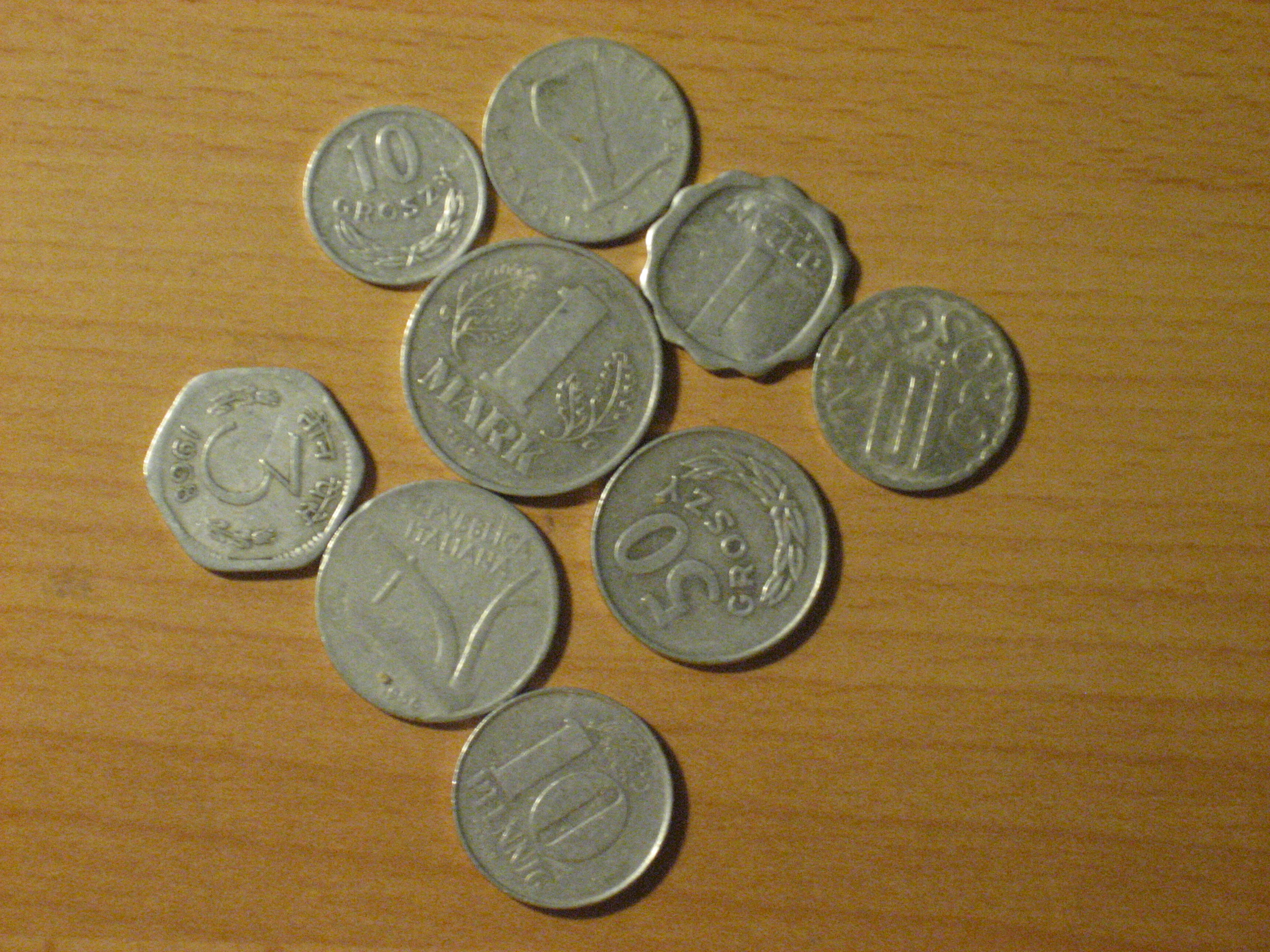 Coins made of aluminum from various countries